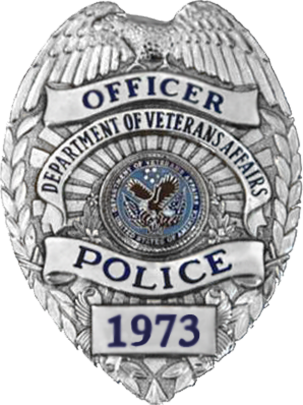 Image is similar, if not identical, to the United States Department of Veterans Affairs Police badge. Made with Photoshop.